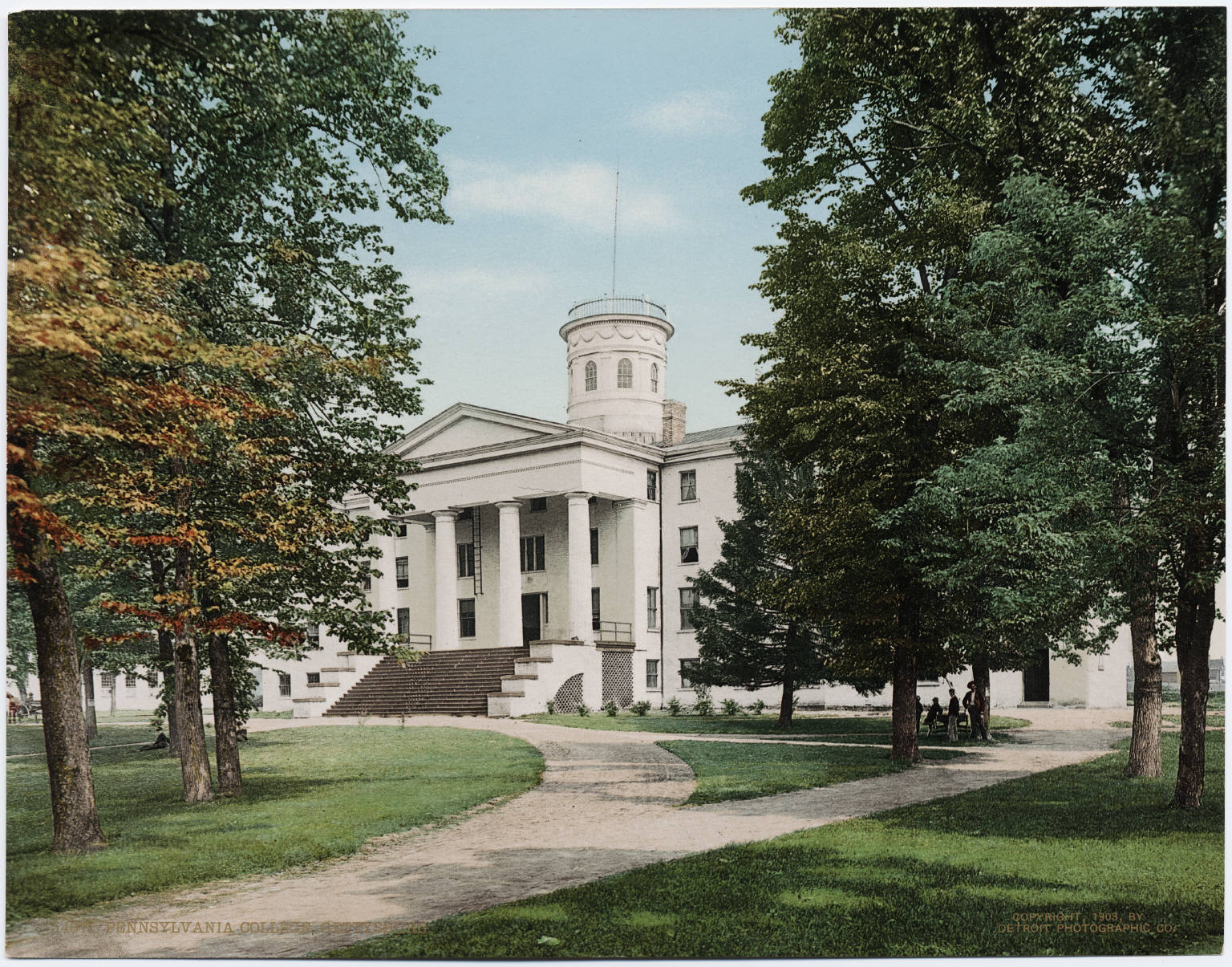 Pennsylvania Hall, Gettysburg College, Gettysburg, Pennsylvania. A photochrom postcard published by the Detroit Photographic Company.